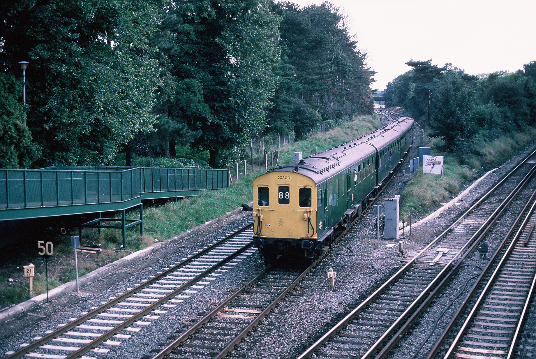 203001 at Hurst Green Junction.